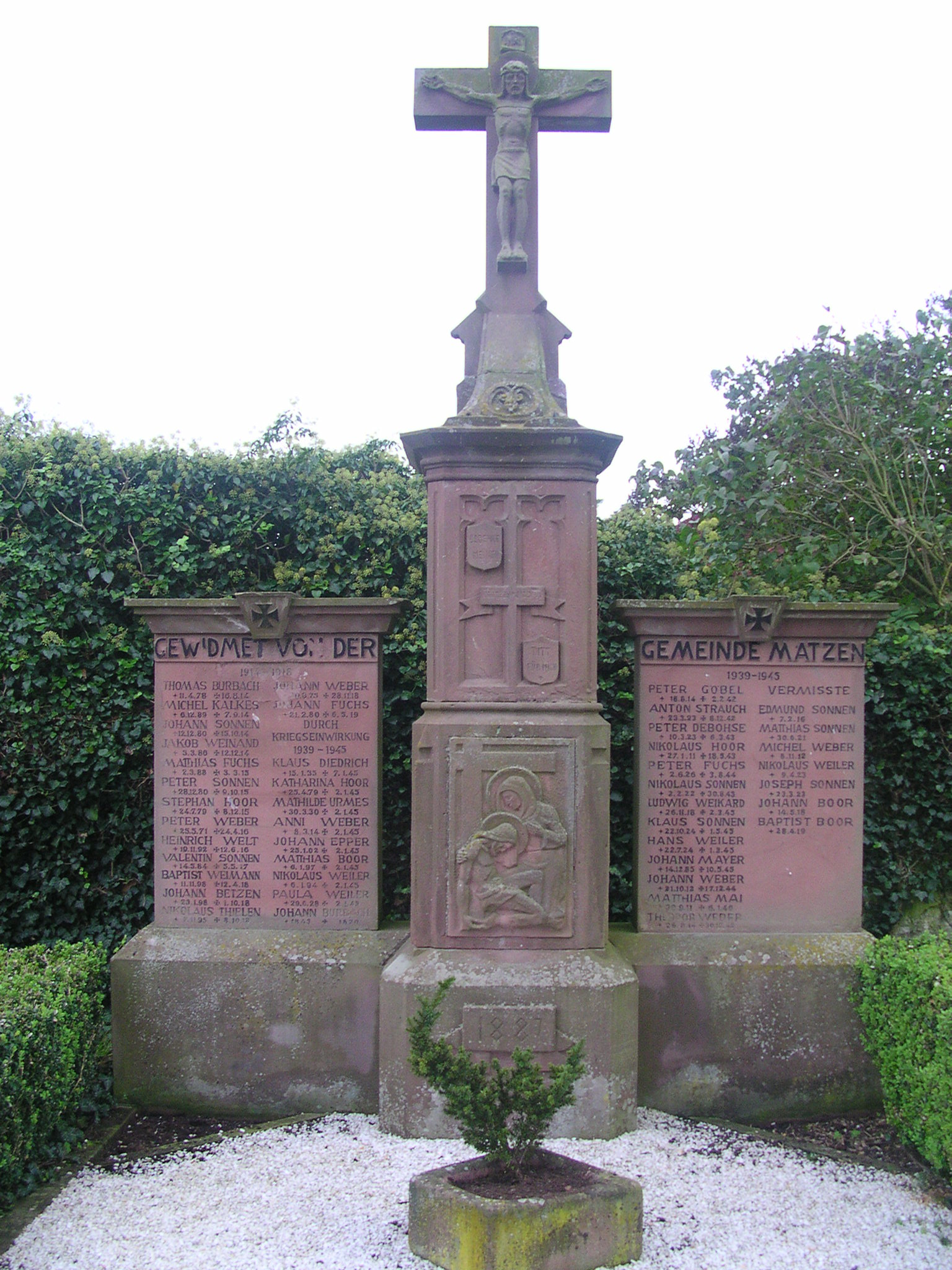 war memorial in Bitburg-Matzen